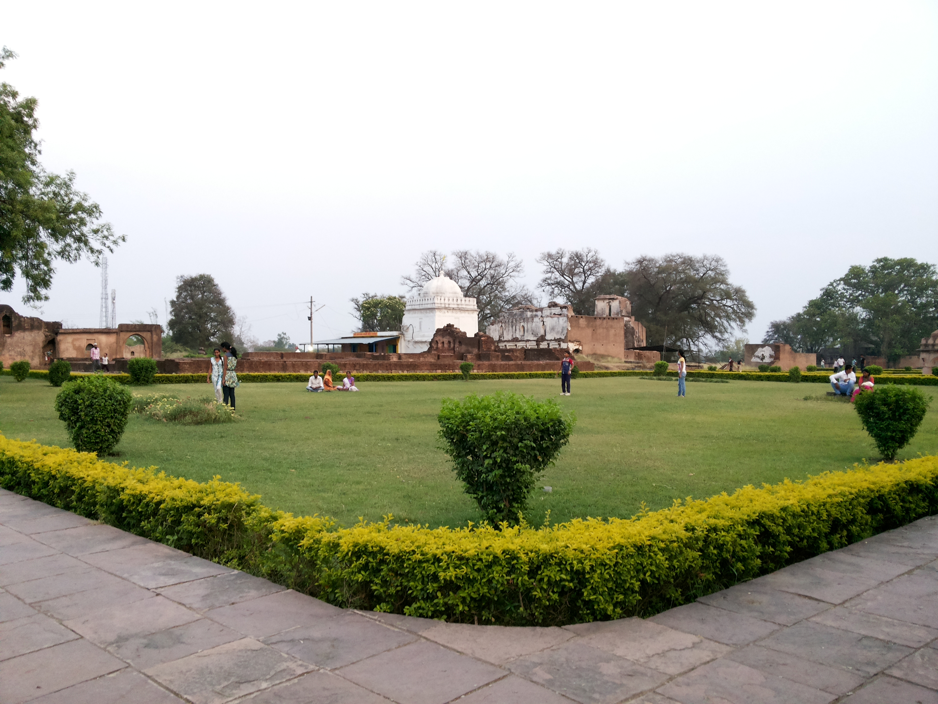 Whole site around Ratanpur /Ratanpur Fort